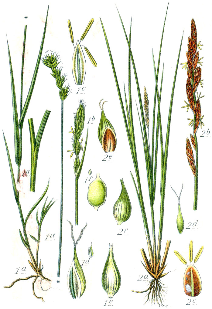 1. Carex ovalis var. argyroglochin (Hornem.) De Langhe & Lambinon, syn. Carex leporina var. argyroglochin (Hornem.) W.D.J.Koch 2. Carex elongata L. Original Caption 1. Carex leporina var. argyroglochin 2. Walzen Segge, C. elongata